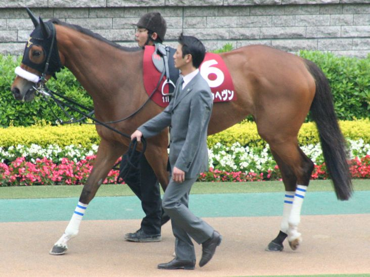 Kiss to Heaven (horse, at Tokyo Racecourse)